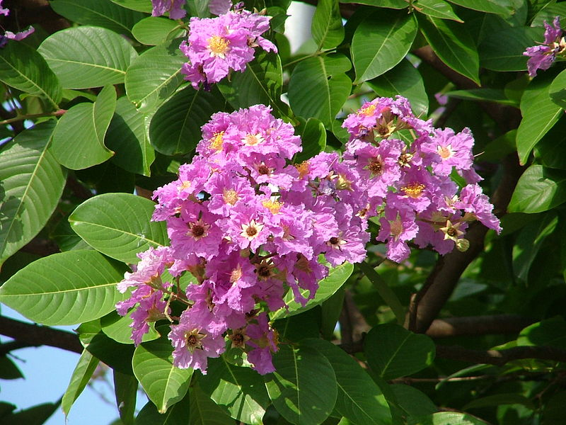 I, L N Roychoudhury, took this photo for my own pleasure at Calcutta, at 30.04.2007 / 12:00hrs